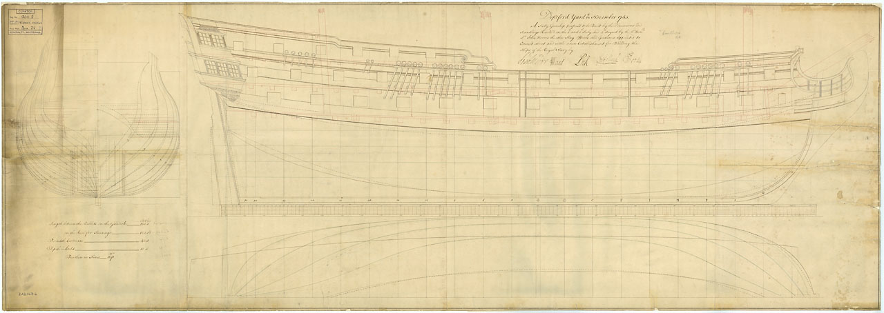 Proposal for 1745 Establishment 60-gun Fourth Rates. Scale: 1:48. Plan showing the body plan, sheer lines with some inboard detail, and longitudinal half-breadth proposed for building 60-gun ships for the Royal Navy. This Establishment, when approved, included Anson (1747), Saint Albans (1747), Tyger (1747), and Weymouth (1752), and in a modified version for Medway (1755) and York (1753). Signed by Joseph Allen [Master Shipwright, Deptford Dockyard, 1742-1746], John Ward [Master Shipwright, Chatham Dockyard, 1732-1752], Peirson Lock [Master Shipwright, Portsmouth Dockyard, 1742-1755 (died)], John Holland [Master Shipwright, Woolwich Dockyard, 1742-1746], and John Pook [Master Shipwright, Sheerness Dockyard, 1742-1751 (died)]. ST ALBANS 1747